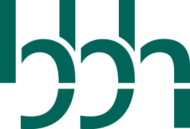 Logo of the Czech law firm BBH